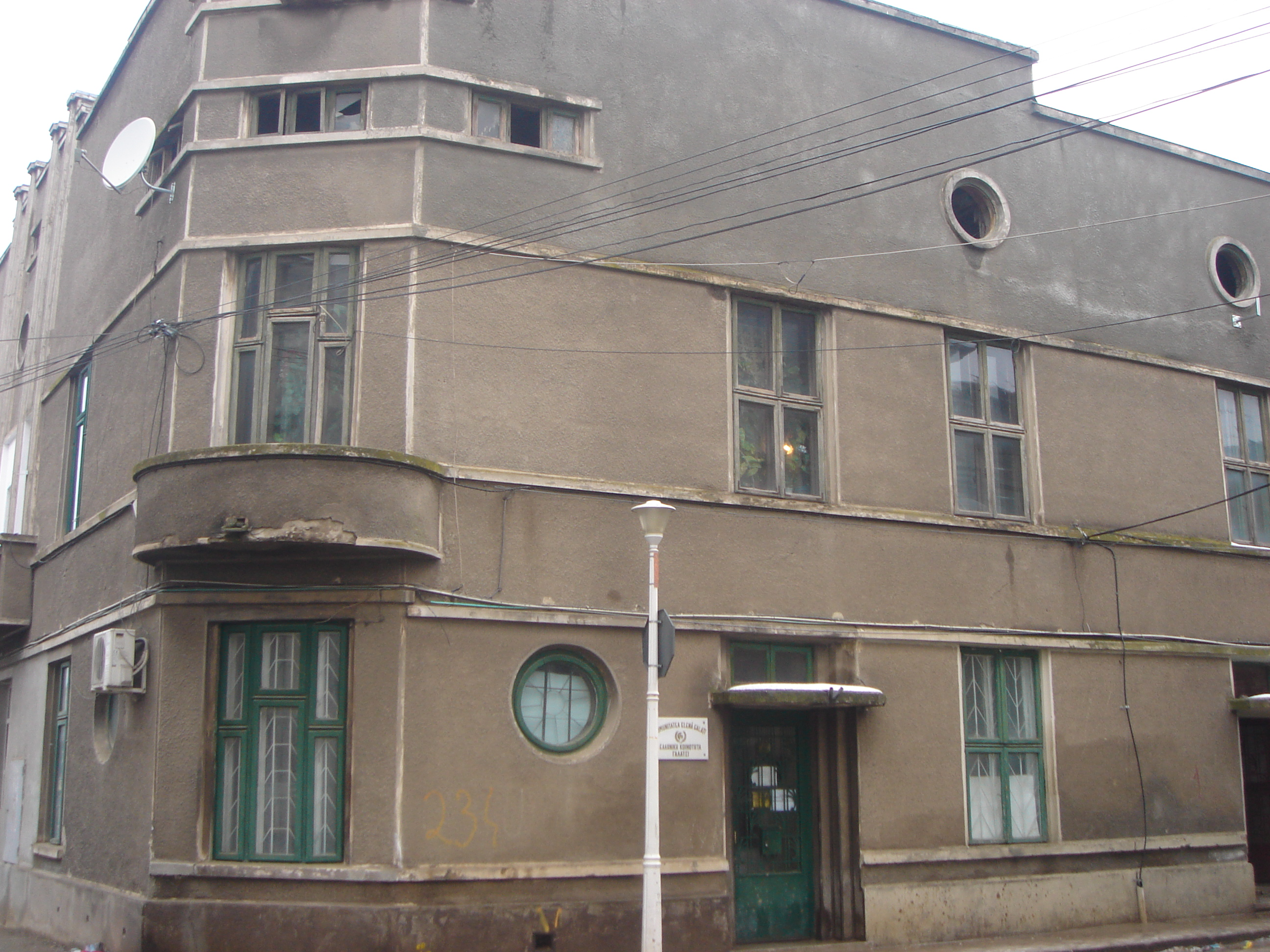 Greek Comunitz Headquarters